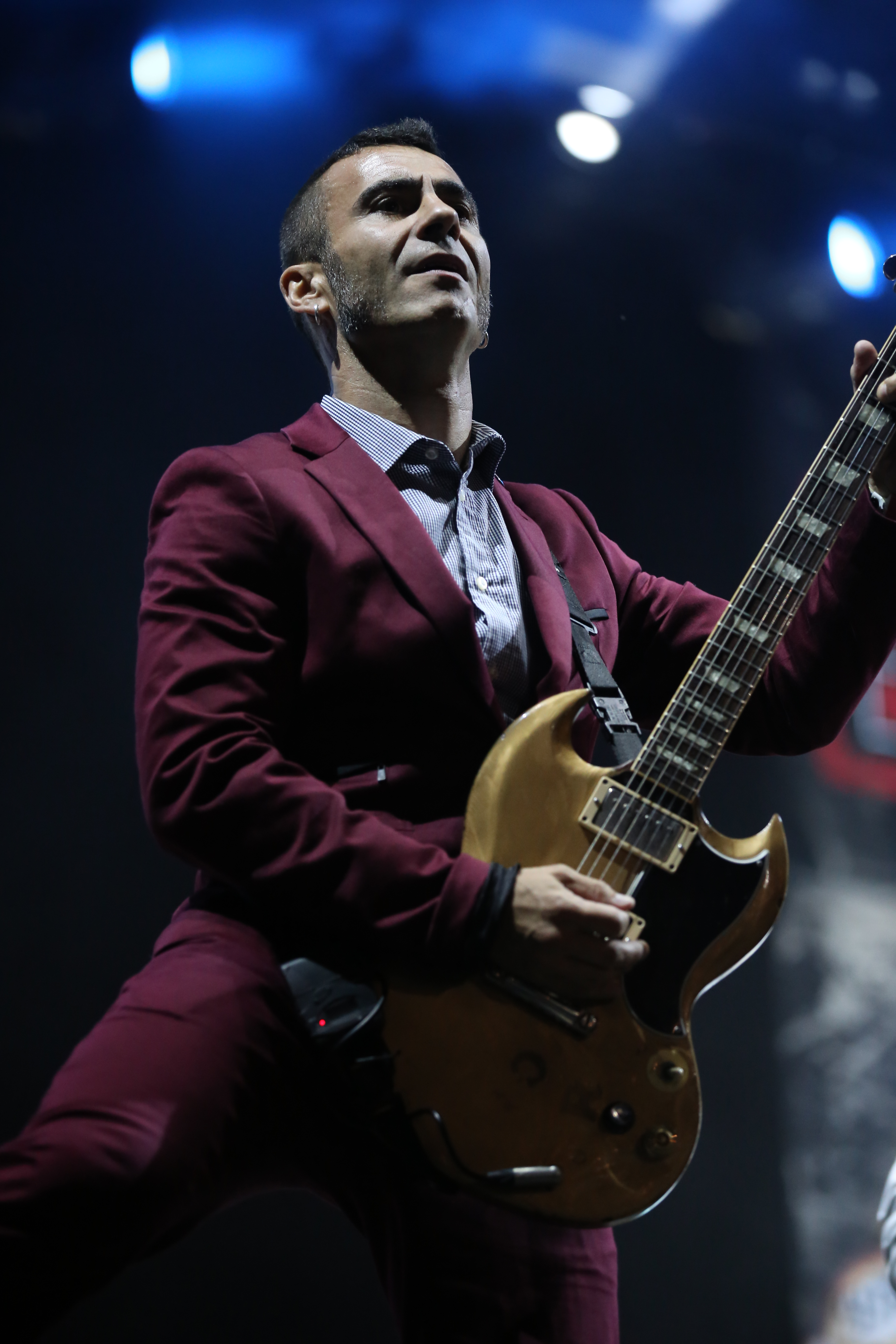 Ska-P at Chiemsee Reggae Summer Festival 2013